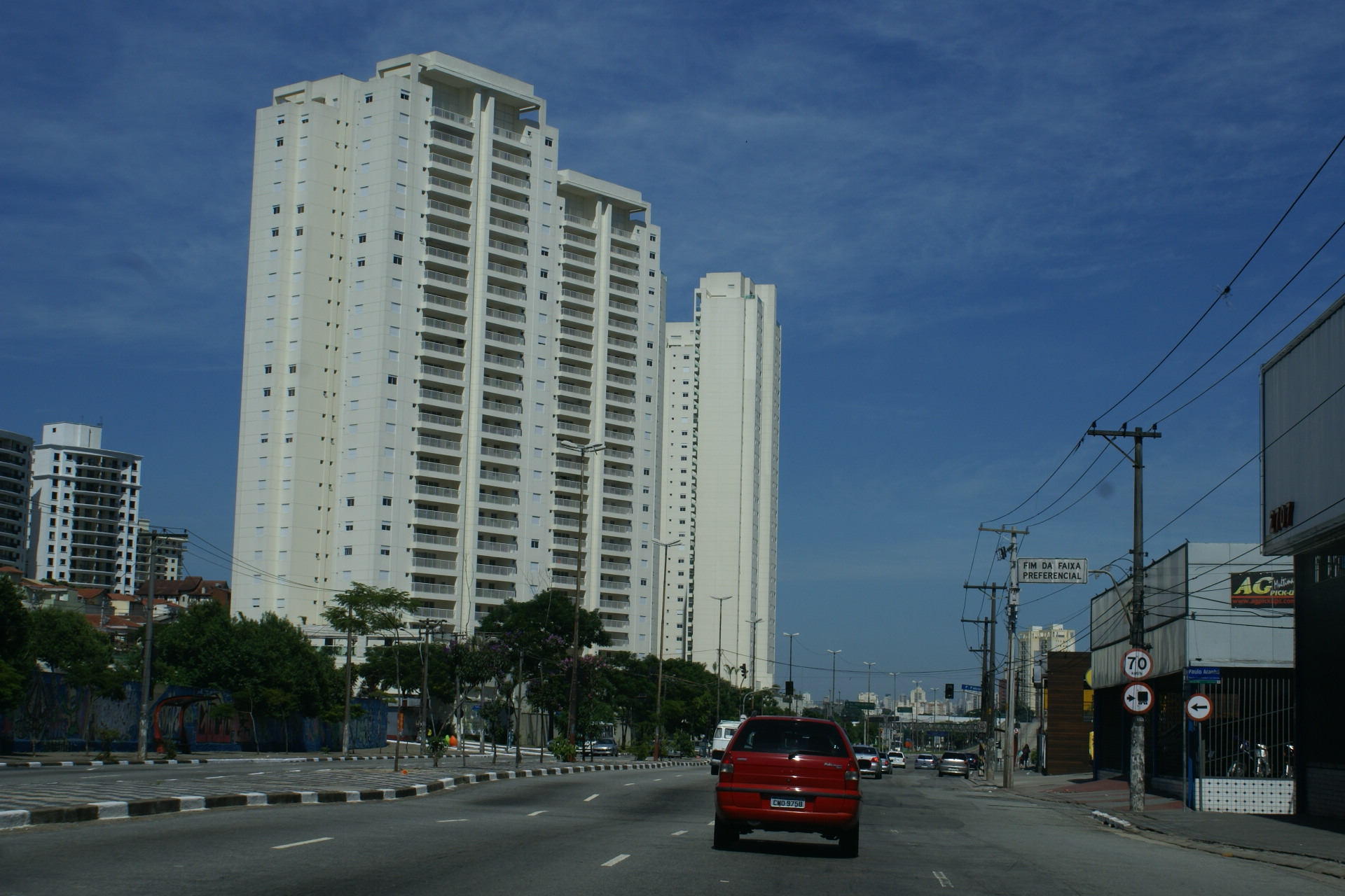 Profº Luís Ignácio de Anhaia Mello Avenue, São Paulo City, Brazil.